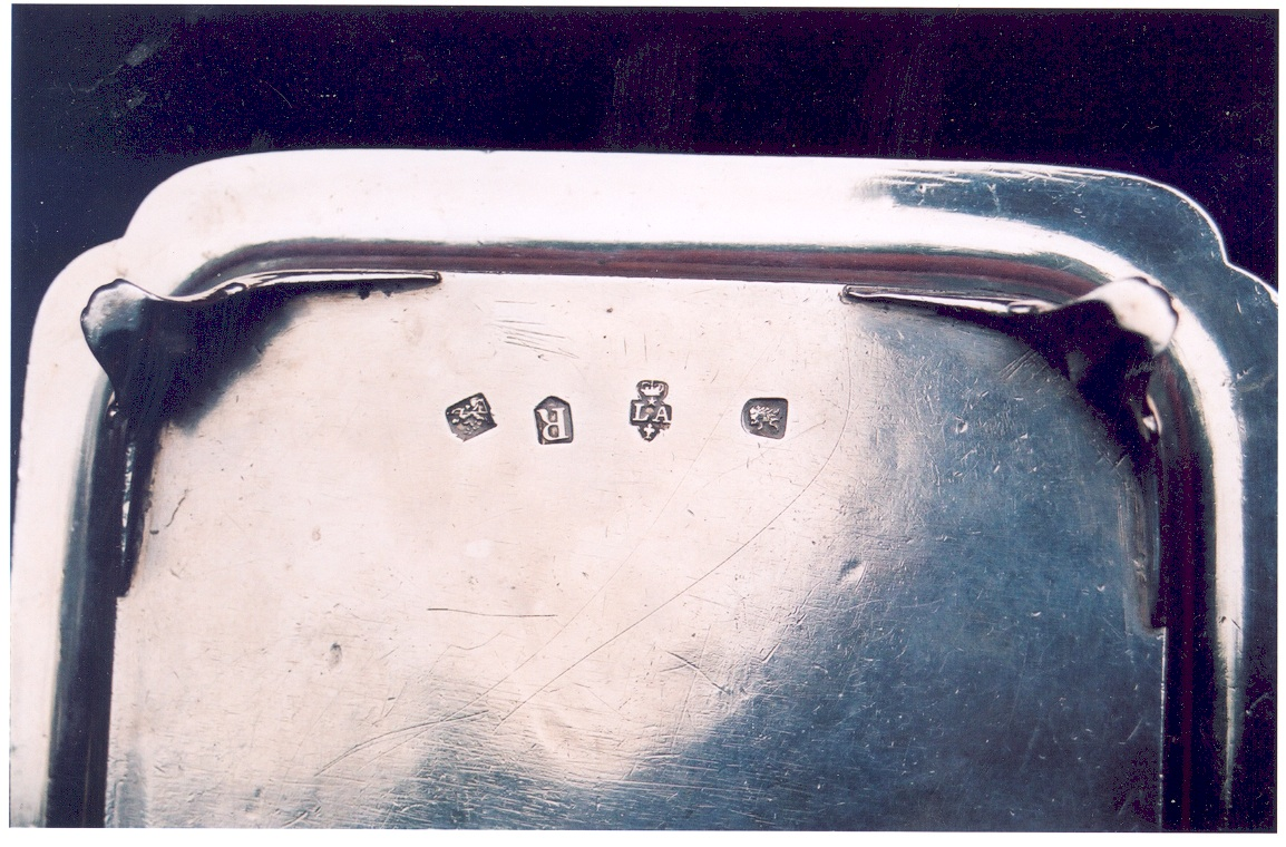 Detail of a silver waiter, small square salver, of 1732 by Paul de Lamerie, with Britannia gauge mark, London, and maker's mark shown. On the other side it has contemporary crests and arms of Fane impaling Stanhope, for Charles, 1st Viscount Fane and Mary, daughter of Hon. Alexander Stanhope, FRS. Date of waiter (1732) coincides with their 25th wedding anniversary so possibly a silver wedding present, if such things existed in 1732. Maker's mark, Paul de Lamerie.